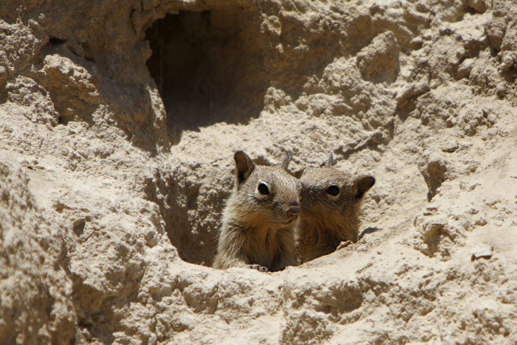 These two young Beldings ground squirrel pups are peeping out of their burrow, under the watchful eye of several adults nearby.